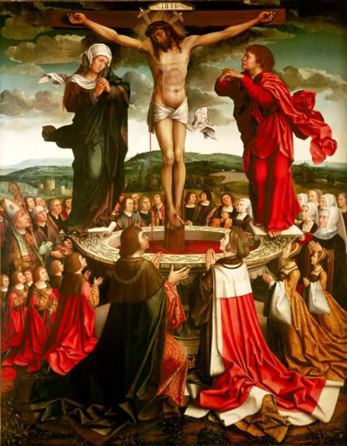 In the Igreja da Misericordia in Porto. On the center right is Eleanor of Austria, followed by Isabella of Portugal, and then Beatrice of Portugal, Duchess of Savoy and the center left is Manuel I of Portugal, followed by his sons in descending order of age